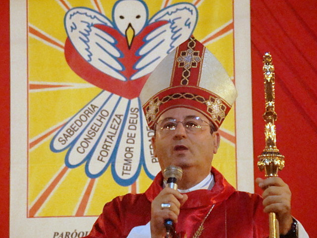 Dom José Valmor César Teixeira